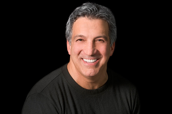 Photo of Dr. Gerry Curatola